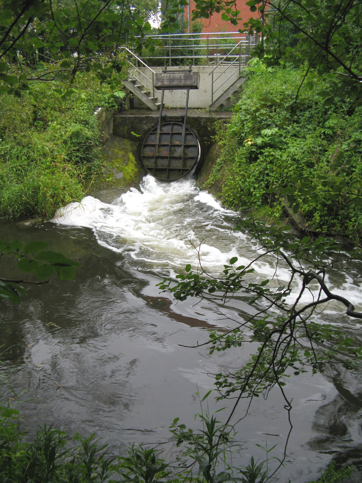 Werre River near town of Lage, District of Lippe, North Rhine-Westphalia, Germany. Water of the Werre River contributes at this point to water that is purified at the local sewage treatment plant. The depictured amount of water flowing into the treatment plant exceeds the average amount due to recent heavy precipitation.